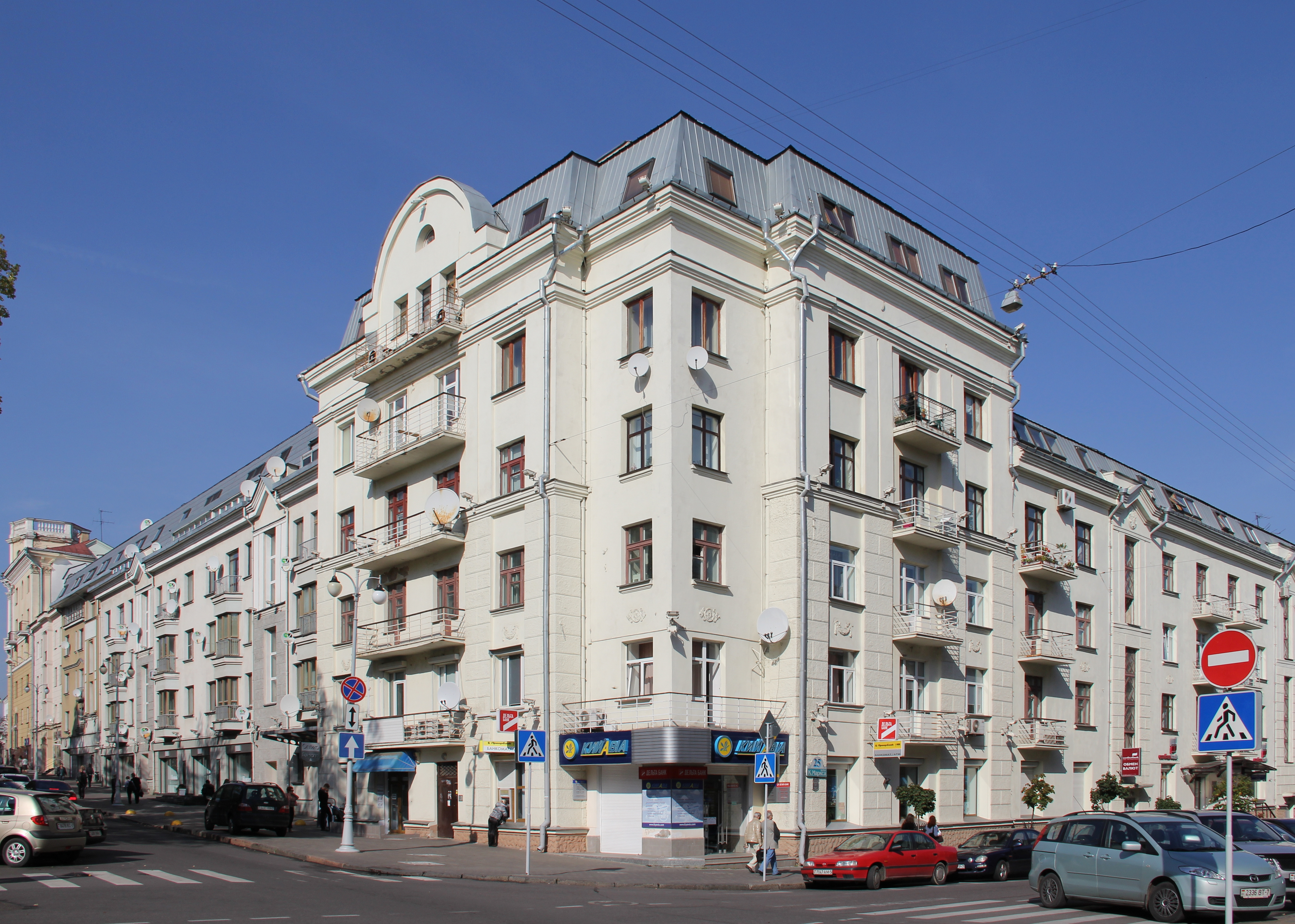 Беларуская (тарашкевіца): Будынак. г. Менск This is a photo of Belarusian heritage monument. Reference number: 713Г000126 ( WLM)